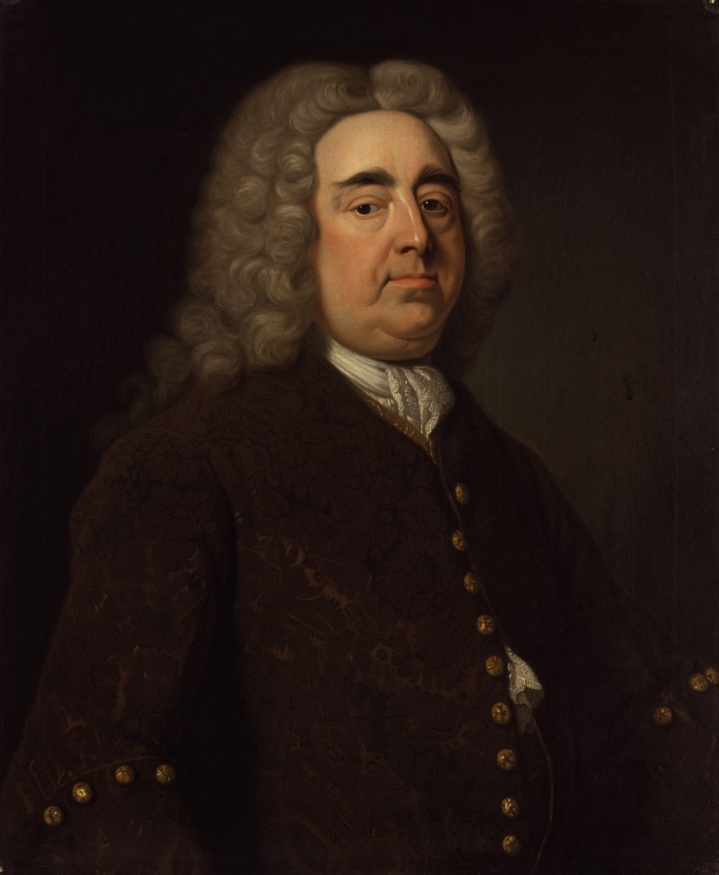 Francis Godolphin, 2nd Earl of Godolphin, by Jean Baptiste van Loo (died 1745), given to the National Portrait Gallery, London in 1892. All images in this batch have been confirmed as author died before 1939 according to the official death date listed by the NPG.